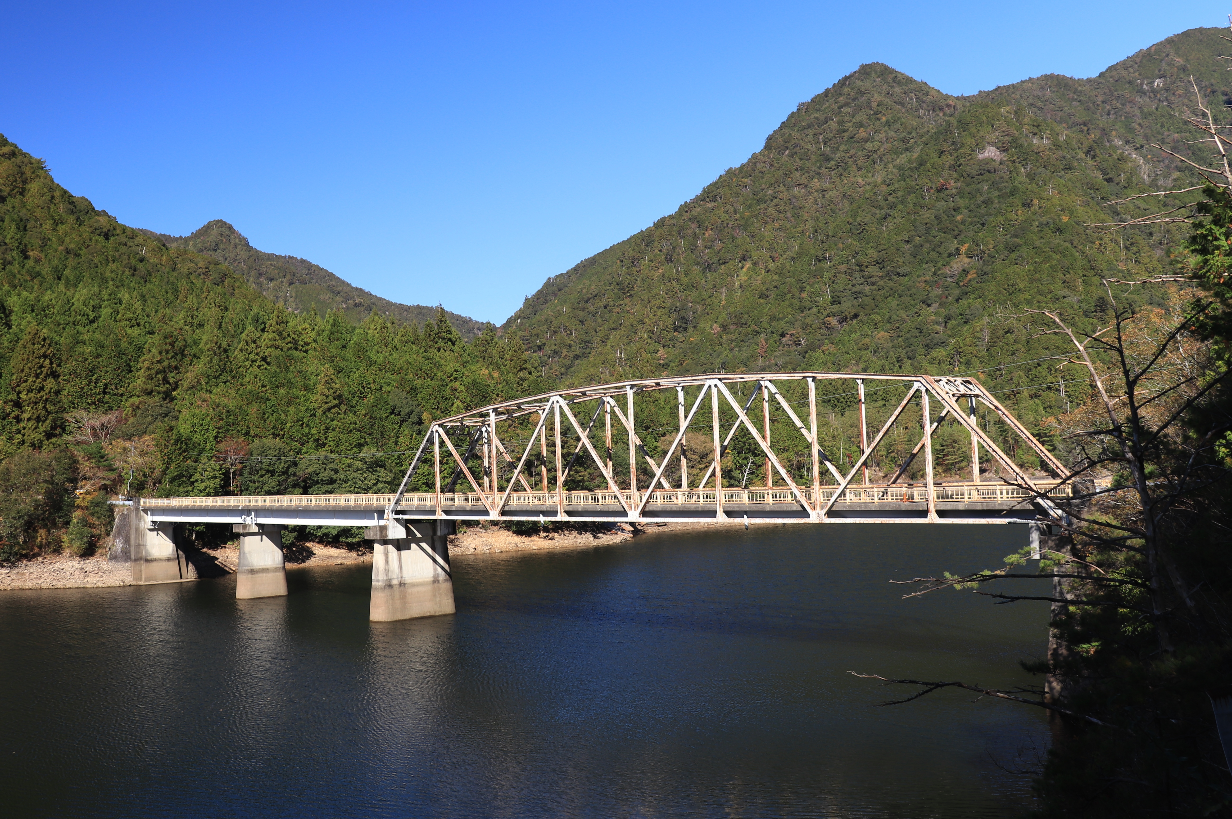 Hachiishi Bridge on Aichi Prefectural Road Route 424 in Kawai, Shinshiro, Aichi Prefecture, Japan. Canon EOS Kiss X9